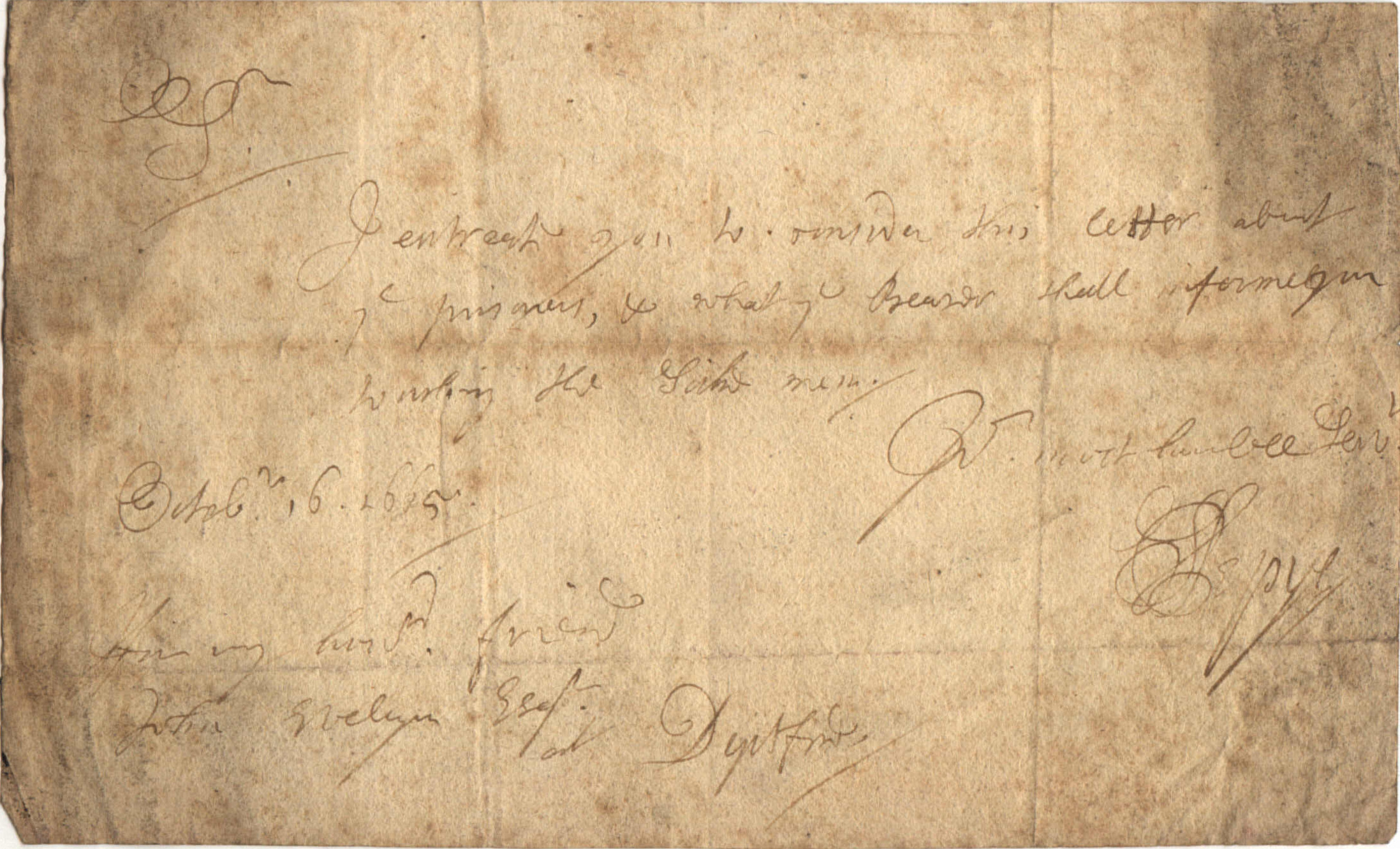 Author: Guy de la Bedoyere. Letter by Samuel Pepys to John Evelyn, 16 October 1665 Text reads: I entreat you to consider this letter about/ ye prisoners, & what ye Bearer shall inform you/ touching the sicke men./ Yr. most humble servt./ S. Pepys